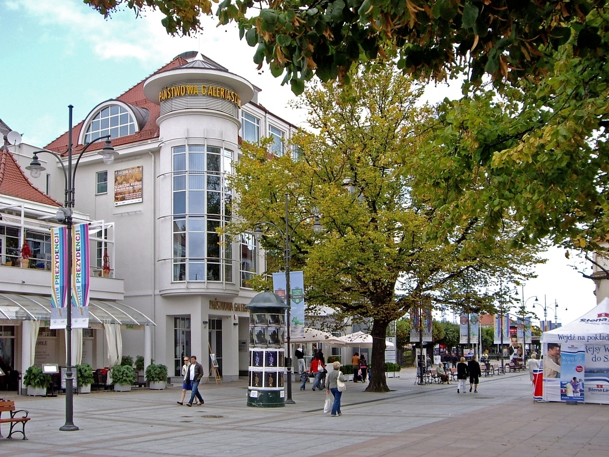 Panstwowa Galeria Sztuki, Sopot, Poland.